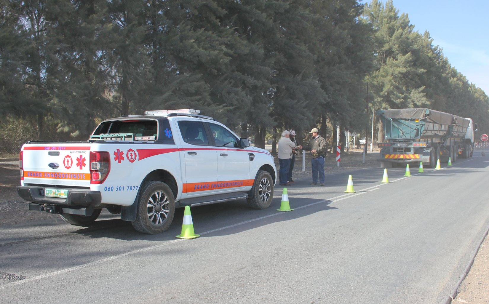 Orania Veiligheidsdienste (OVD) securing a road after a truck breakdown